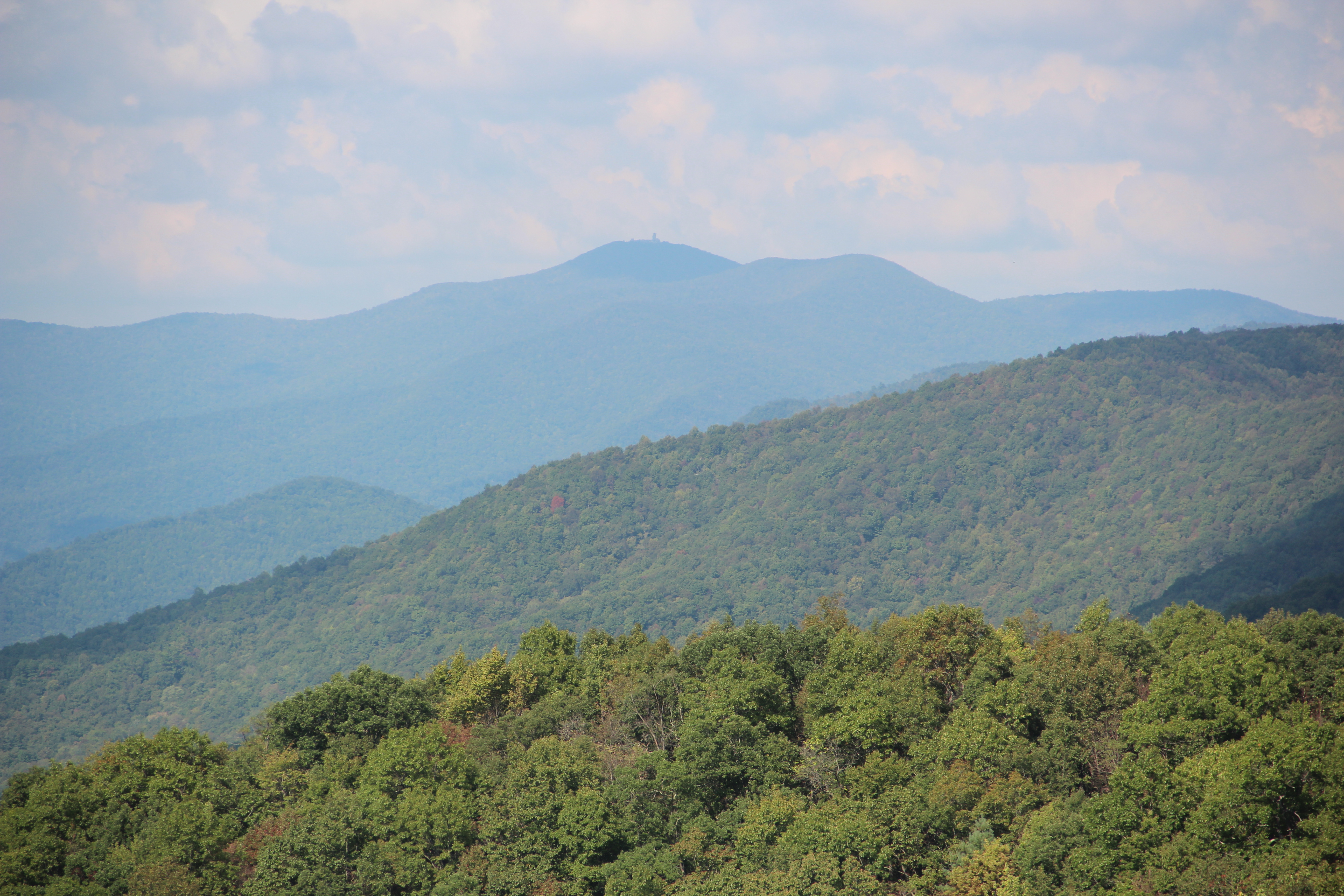 Brasstown Bald from Hogpen Gap